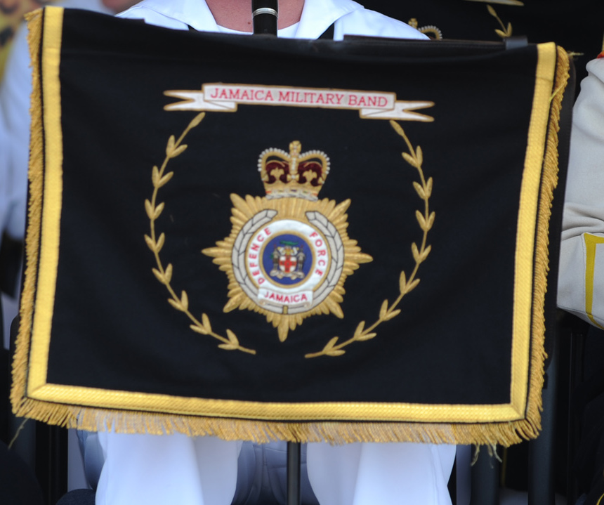 KINGSTON, Jamaica (April 21, 2011) Musician 3rd Class Fred Vaughan, assigned to the U.S. Fleet Forces Band, and members of the Jamaican Defense Force Band perform during the closing ceremony for the Jamaican phase of Continuing Promise 2011. Continuing Promise is a five-month humanitarian assistance mission to the Caribbean, Central and South America. (U.S. Navy photo by Mass Communication Specialist 2nd Class Eric C. Tretter/Released)